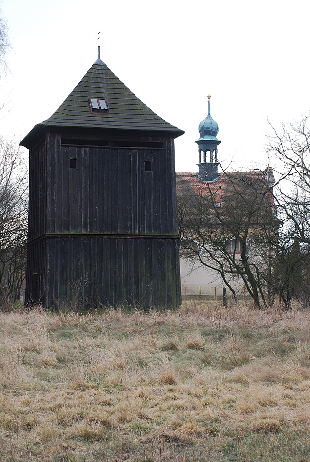 Wooden belfry in Újezd u Přelouče, Pardubice District, Czech Republic